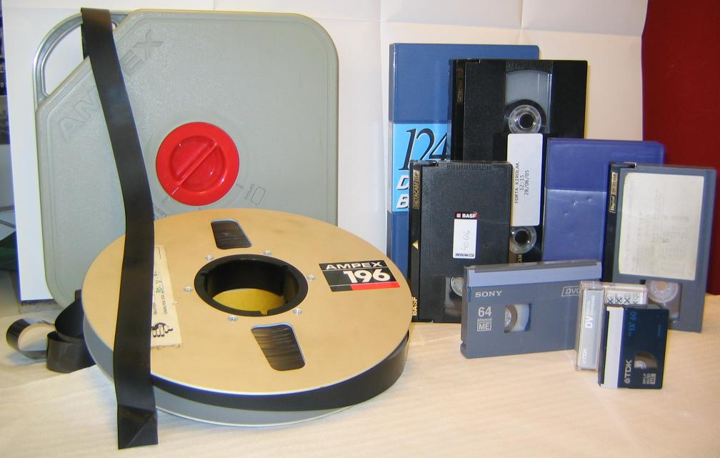 derived from which is also in the public domain. cropped, reduced and compressed some more.